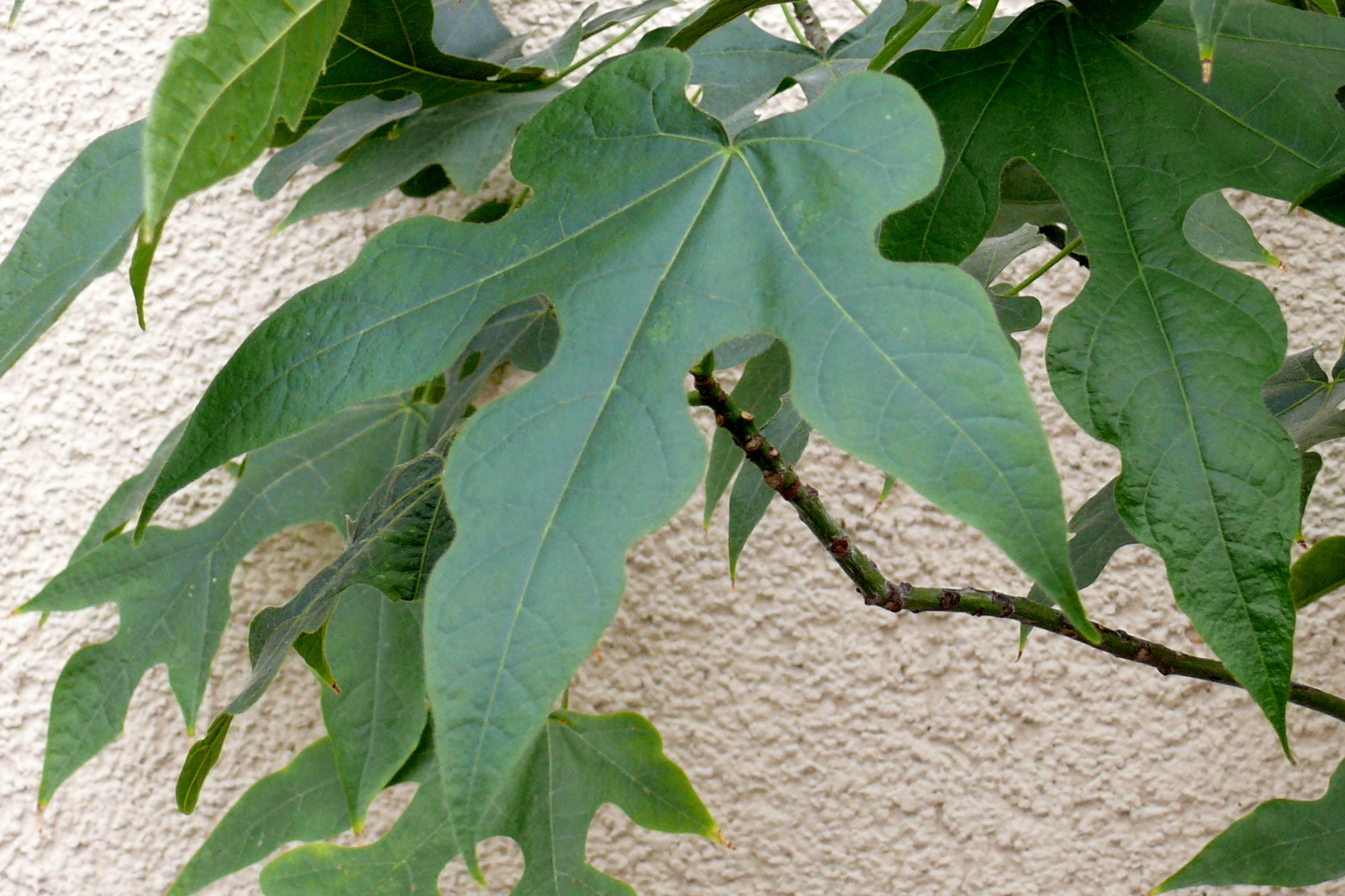 Brachychiton discolor, leaf